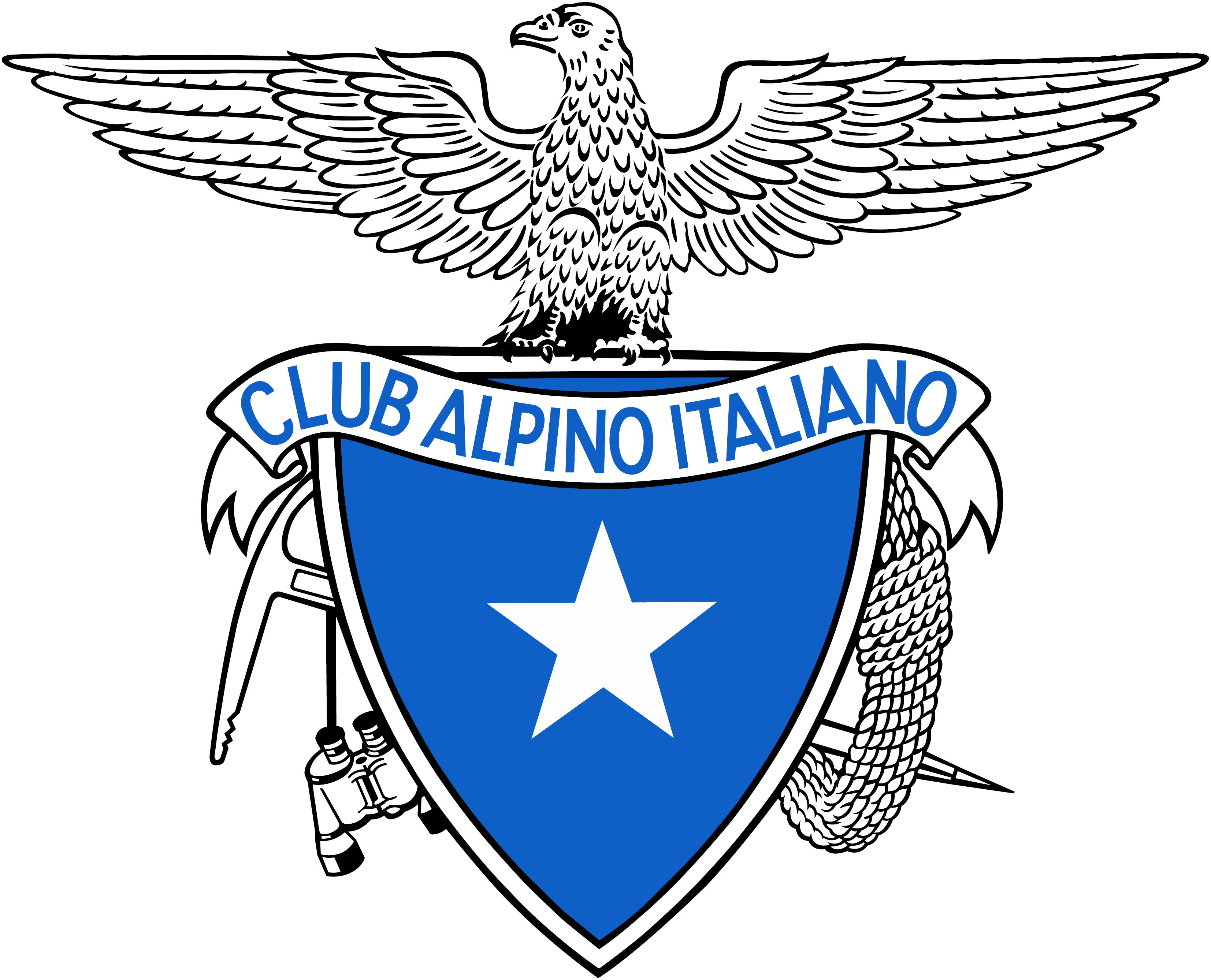 Coat of arms of Club Alpino Italiano